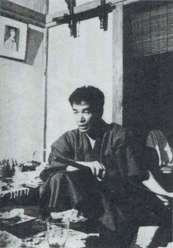 Shōtarō Ikenami